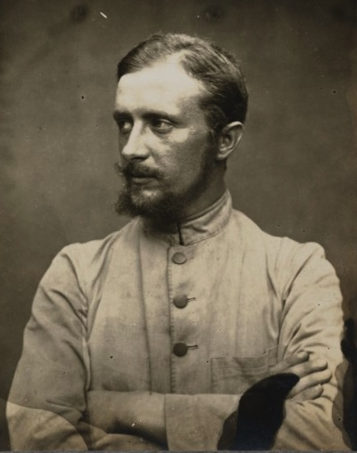 sinologist Paul Pelliot photography